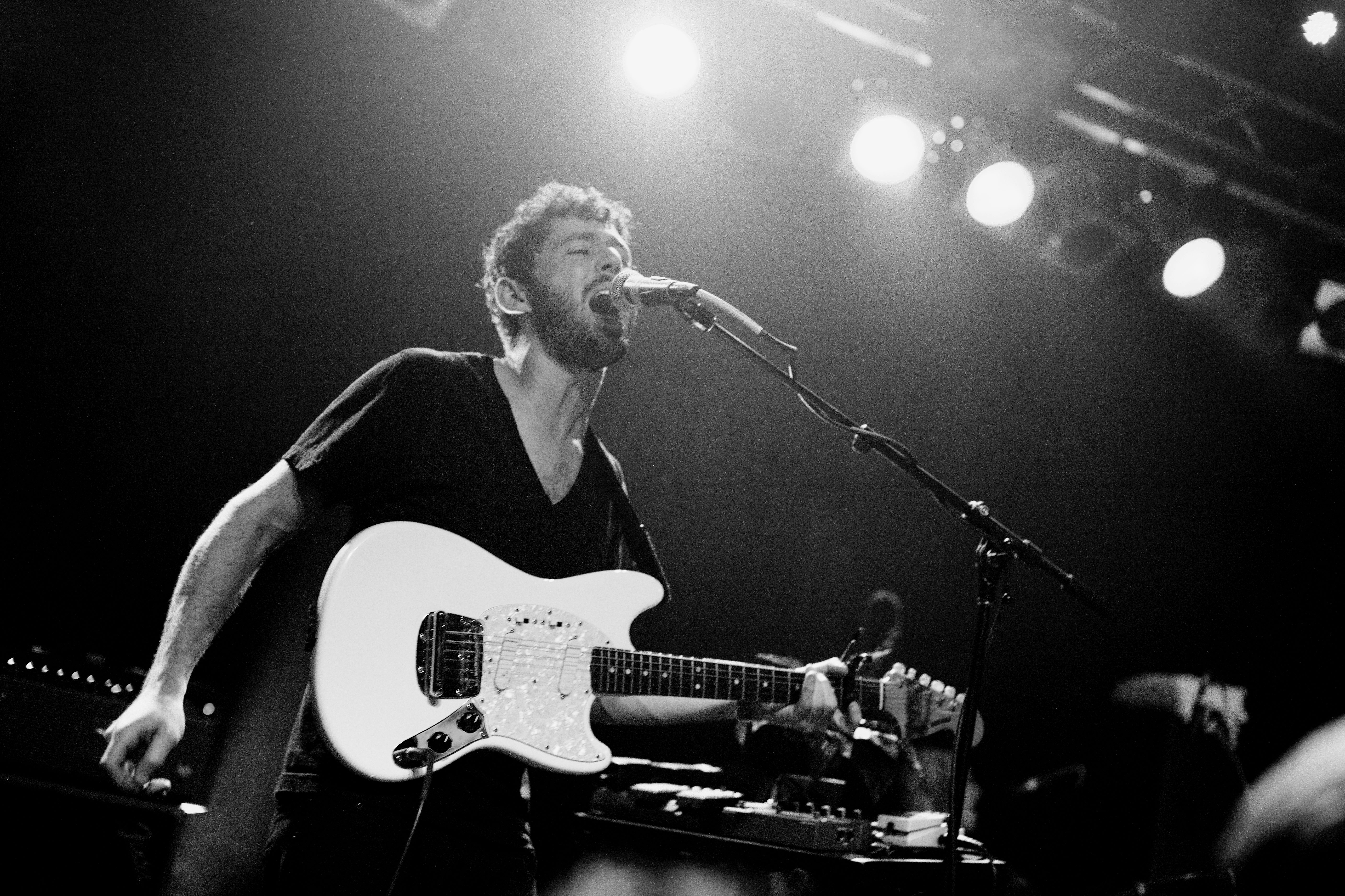 The Antlers at Neumos - Seattle, WA on 5/5/10